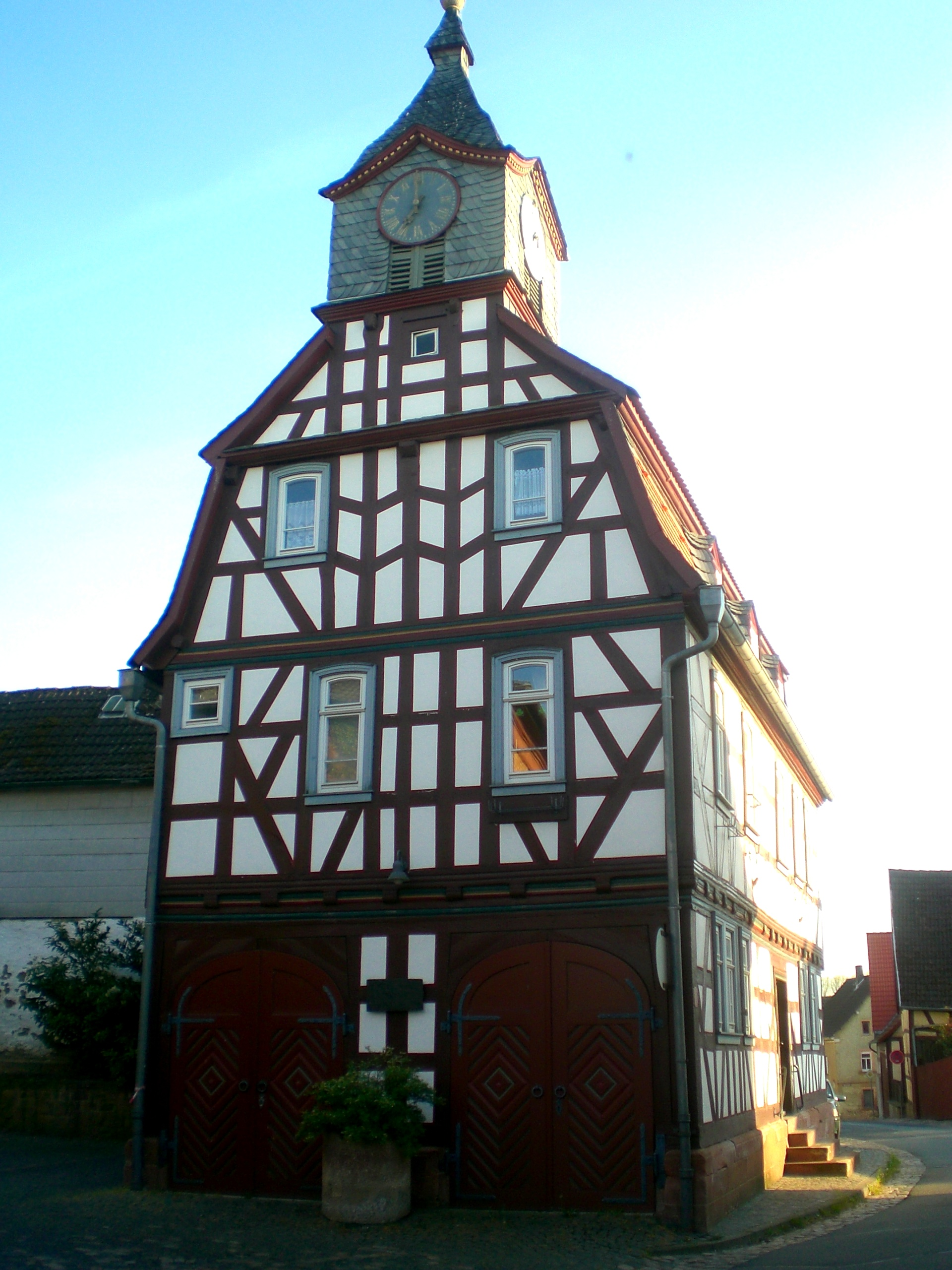 Old town hall of the village Nieder-Klingen, municipality Otzberg, southern Hesse (Germany).